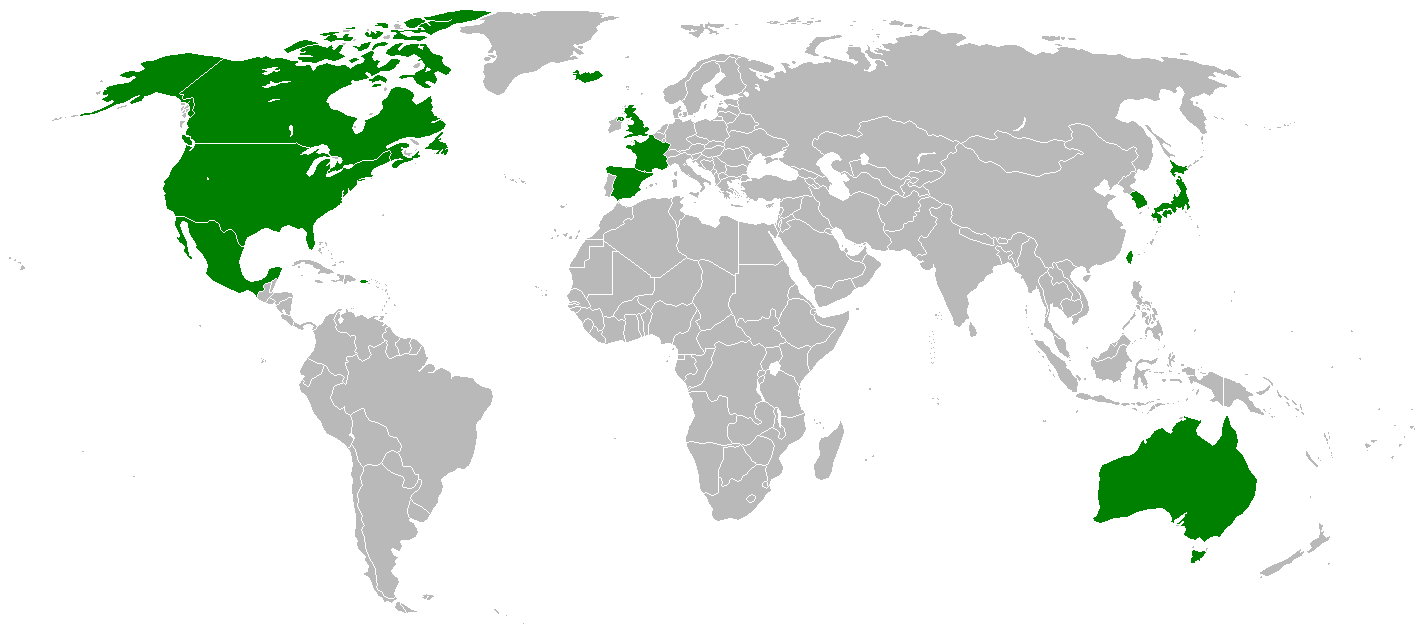 Costco in the world